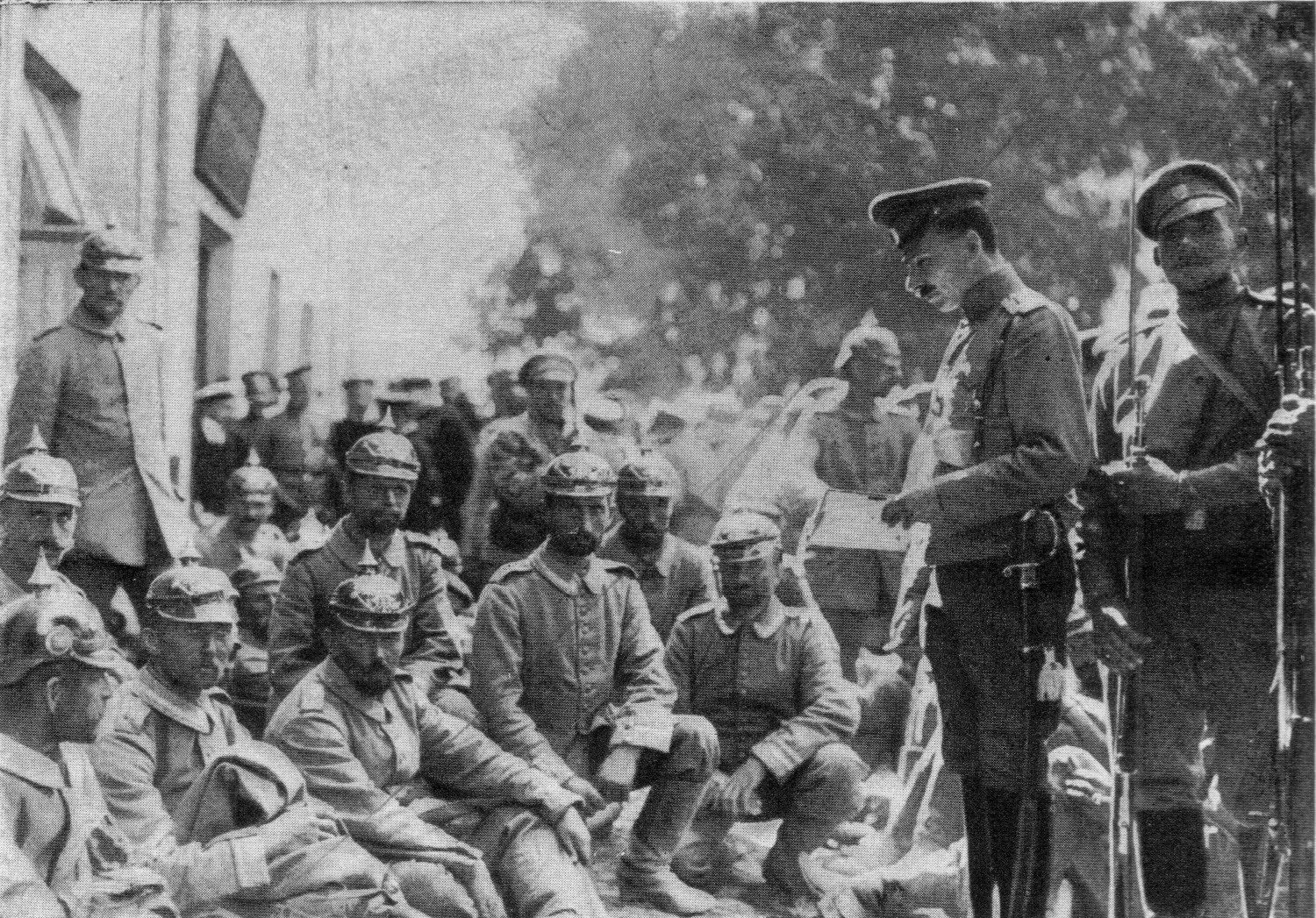 Registration of German POWs.